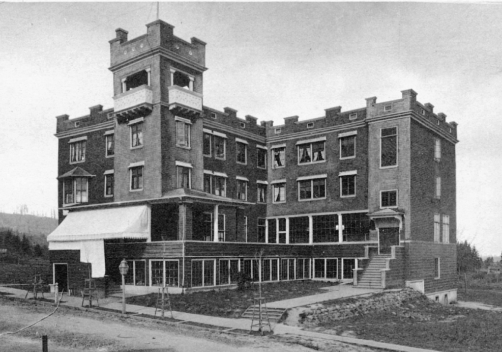 Hill Military Academy in Portland, Oregon, USA in 1903. Original location in NW.